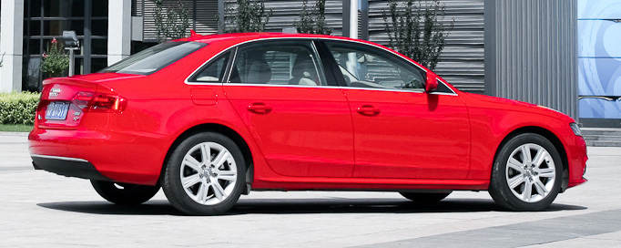 FAW Audi A4L 2.0T